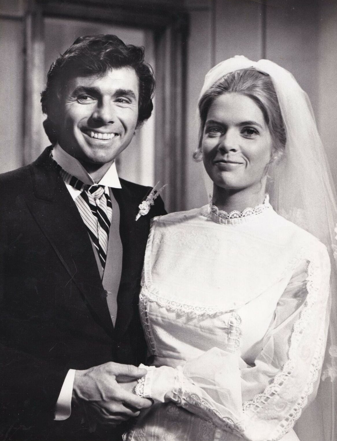 Publicity photo of Meredith Baxter and David Birney from the television program Bridget Loves Bernie.